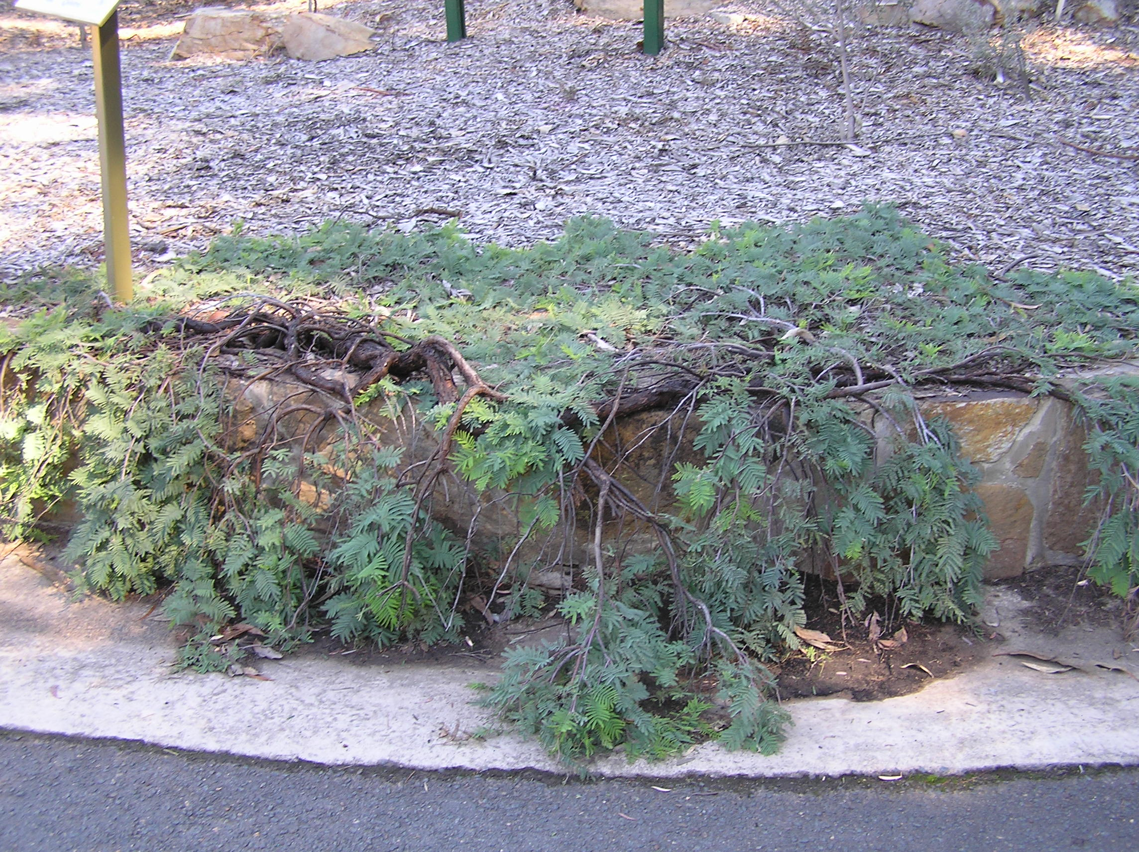 Kambah Karpet a variety of Acacia dealbata found at the Kambah Village shopping centre, and cultivated at the Australian National Botanic Gardens, a prostrate form